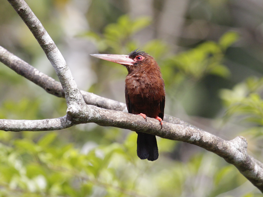 A Purus Jacamar at Manu National Park, Peru.